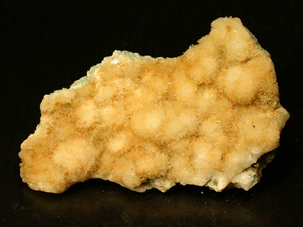 Hydromagnesite Locality: New Idria District, Diablo Range, San Benito County, California, USA Original description: A 6.1 by 3.9 cms mass of small crystals. JSS specimen and photo.